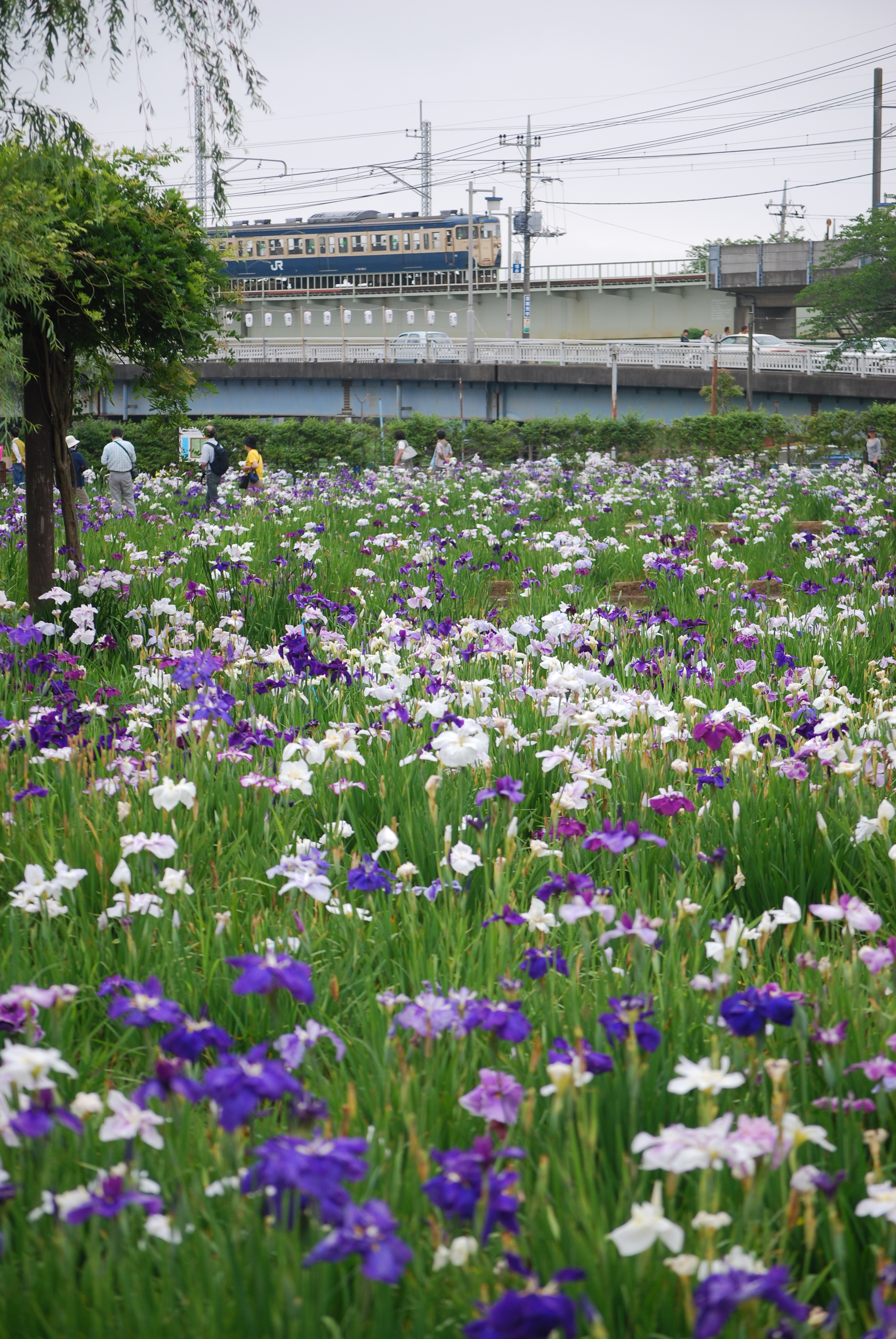 Itako-Ayame-en, JR Kashima-Line, Itako-city, Japan